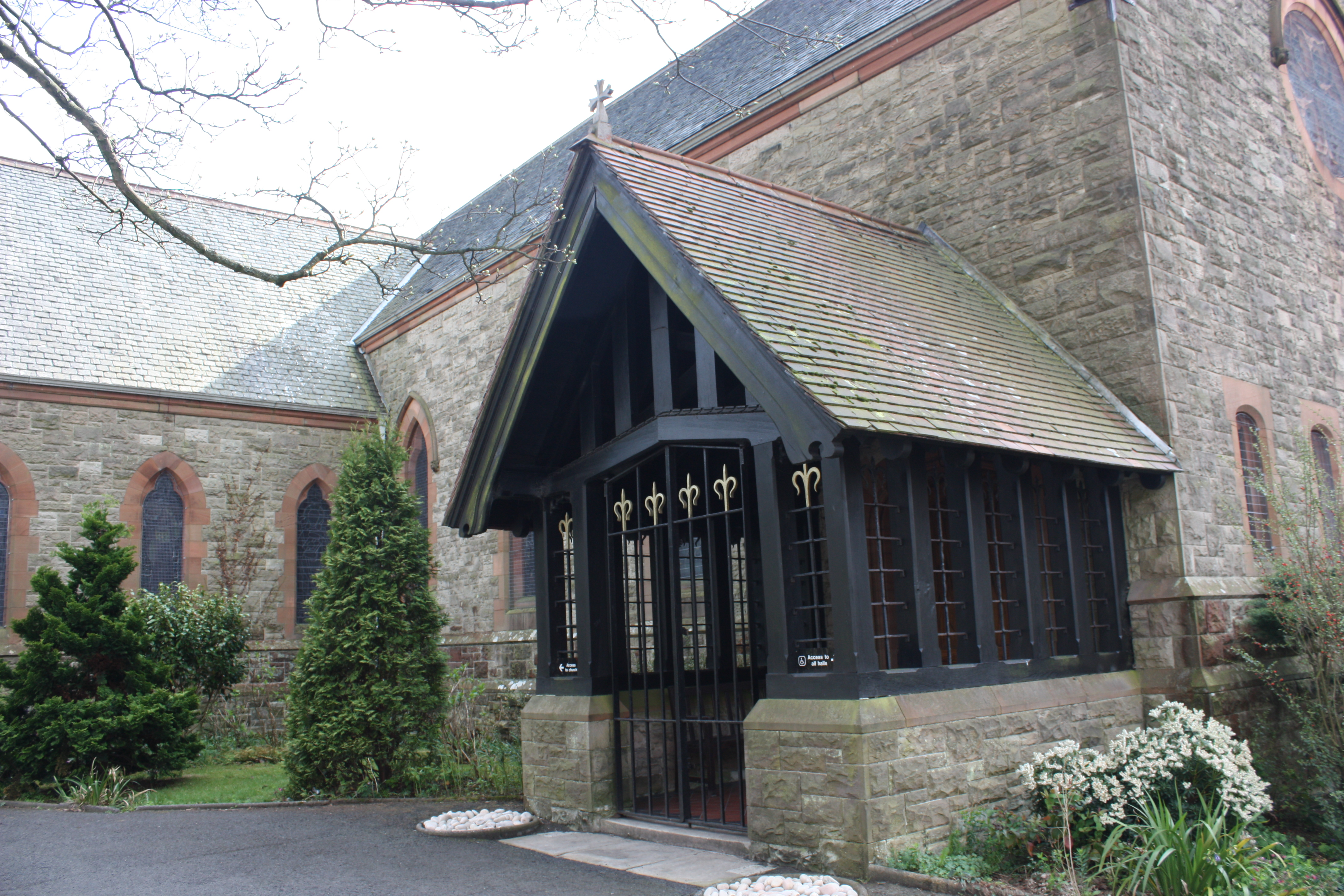 Church of St John the Evangelist (Church of Ireland), Malone Road, Belfast, Northern Ireland, April 2012 (at the corner with Osborne Park)